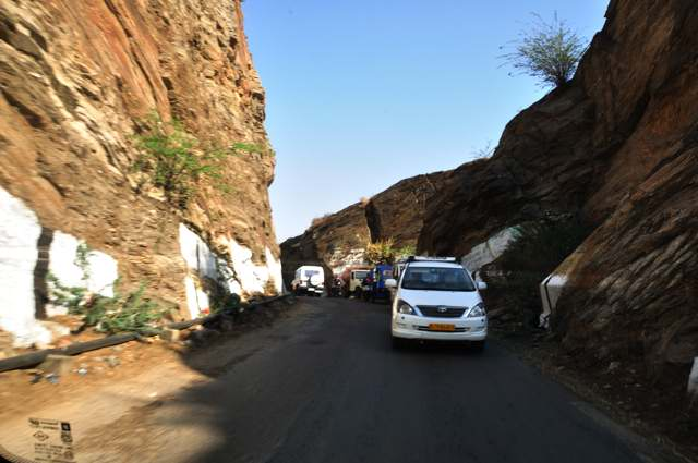 ajmer